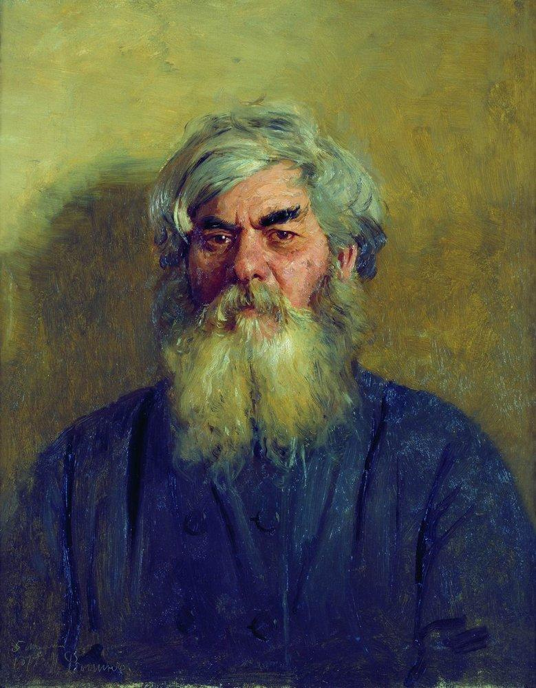 A peasant with an evil eye. Portrait of Ivan Fyodorovich Radov, the artist's godfather